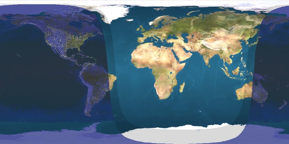 Nonscientific daylight/sunlight border map (09:00 UTC); timezone.